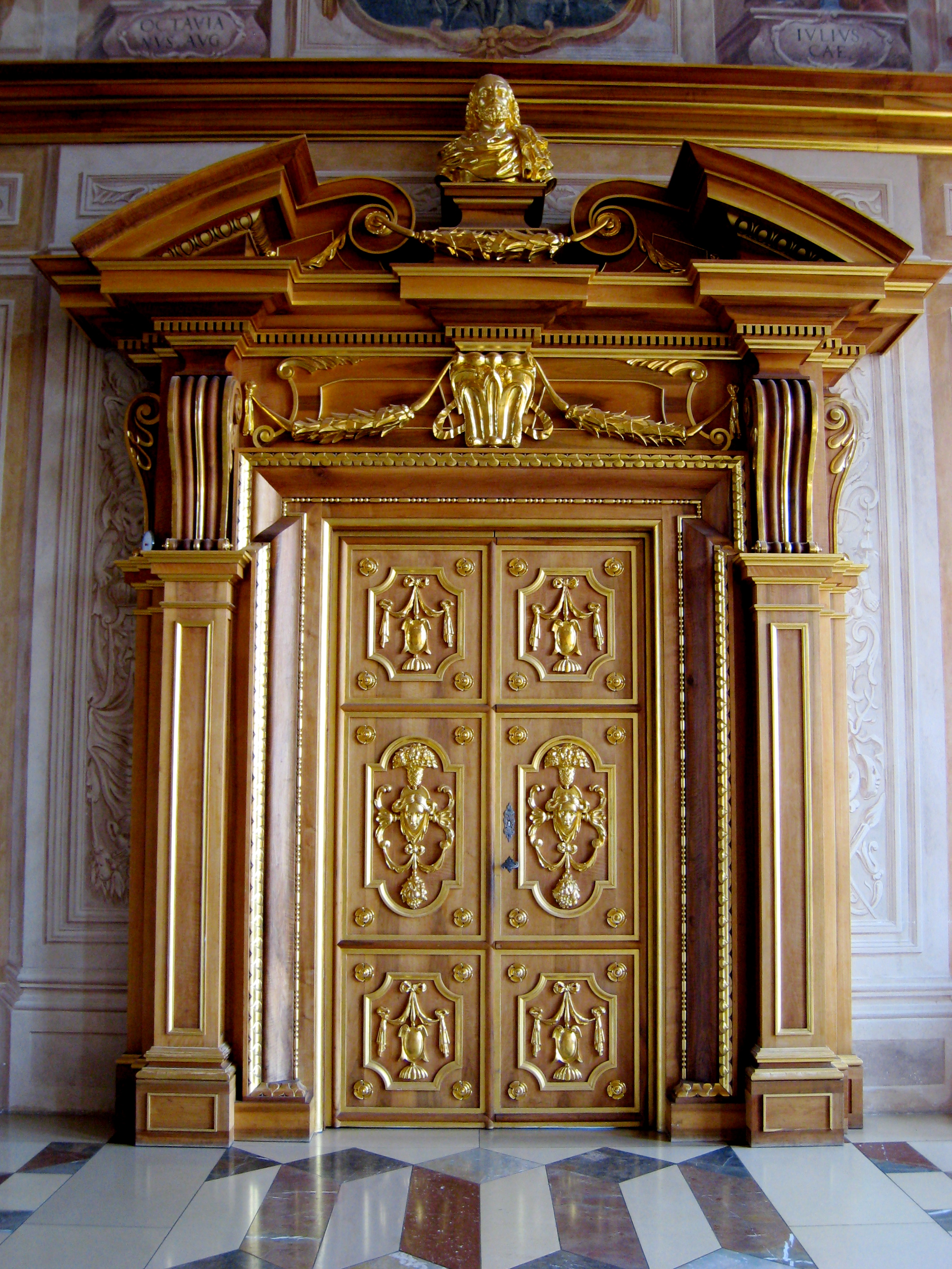 One of the minor portals in the Goldener Saal in Augsburg's town hall